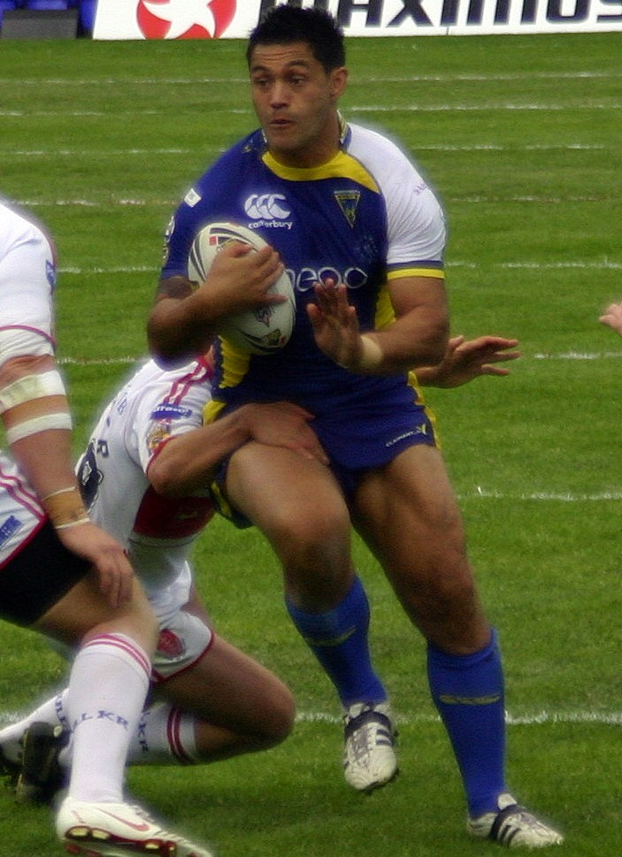 Paul Rauhihi